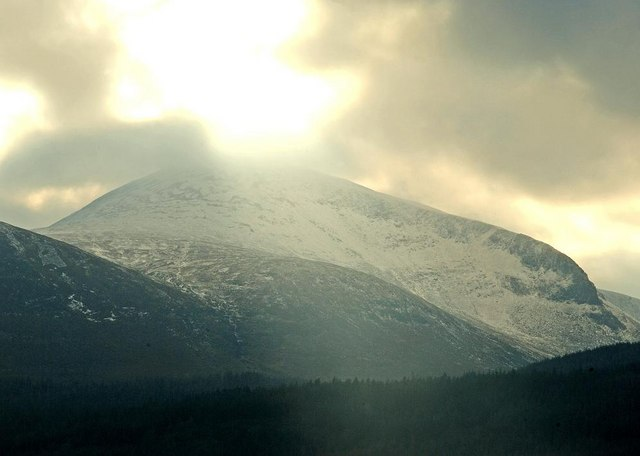 Sun, snow and Slieve Donard. Sunny and snowy Slieve Donard lit by a celestial spotlight - seen from the Islands Park 1132823, Newcastle.